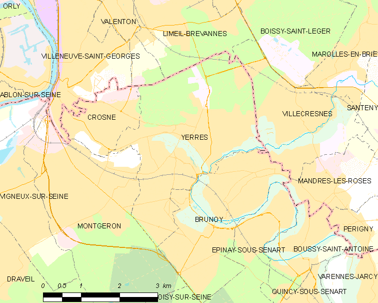 Map of French municipality Yerres